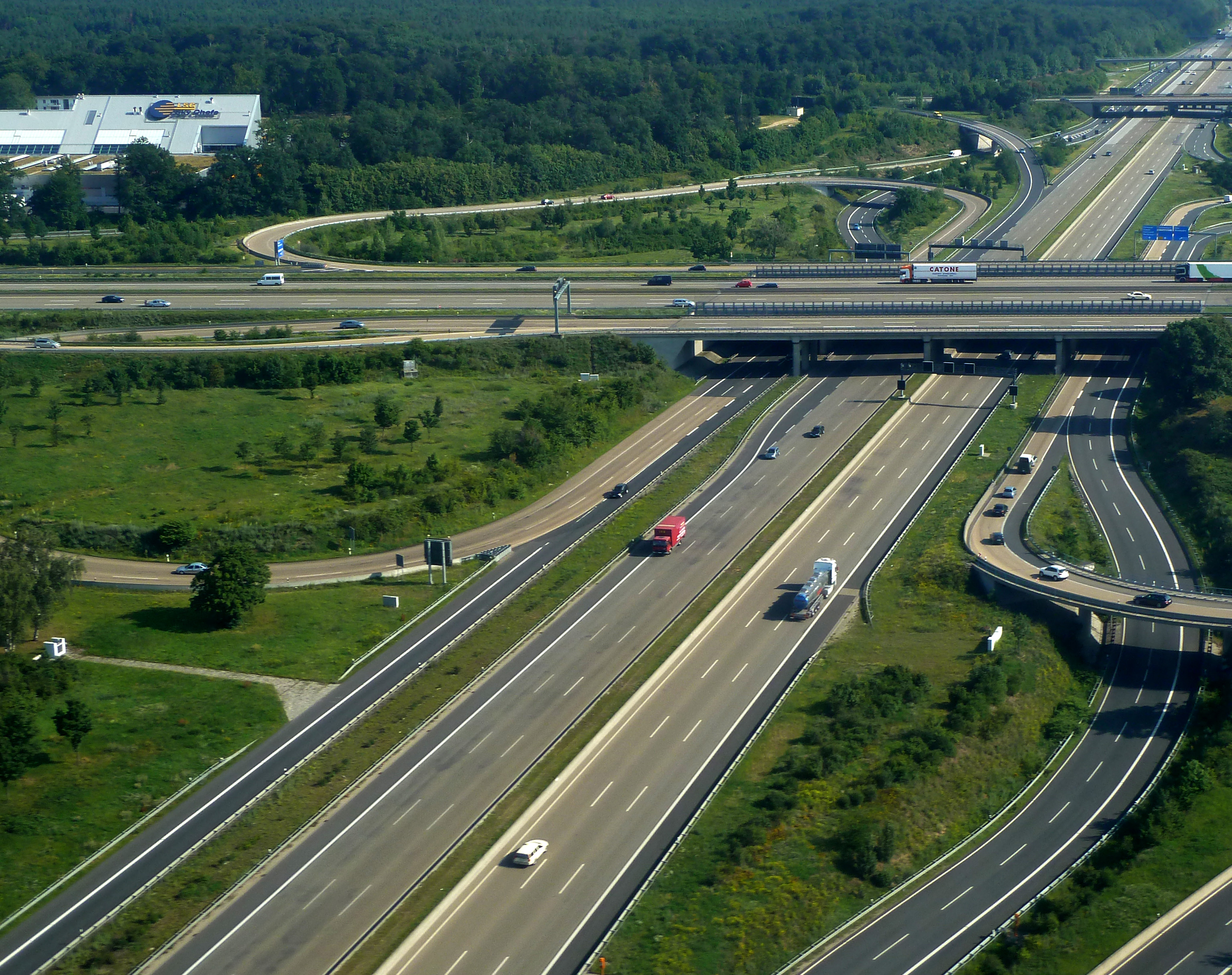 Autobahn A5 in Frankfurt